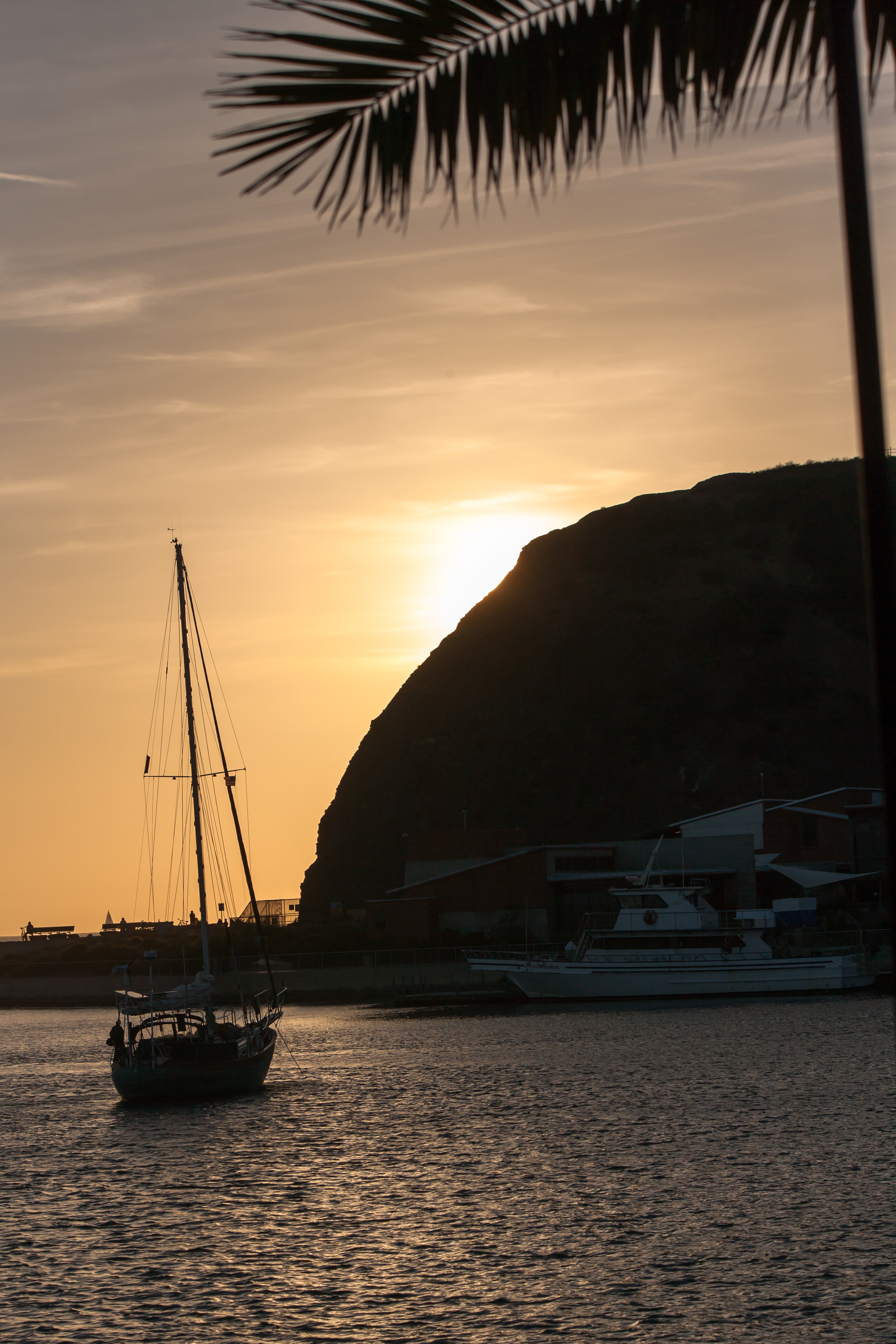 The harbor at Dana Point, CA at sunset